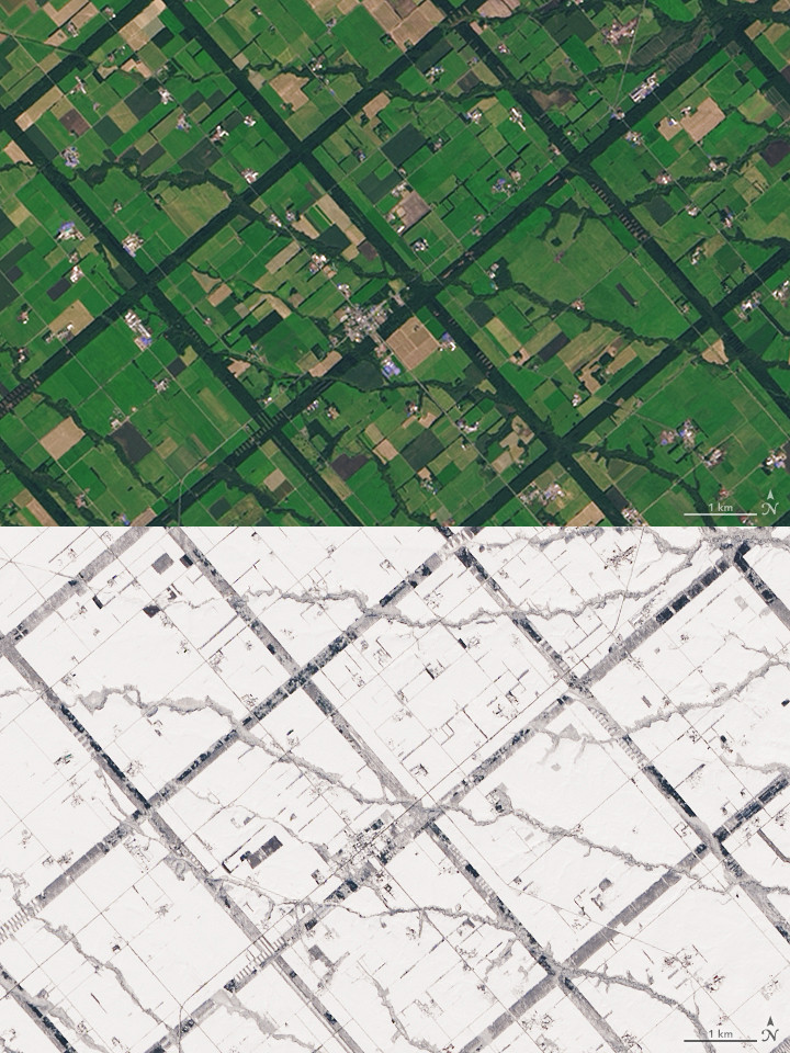 Satellite images of Kami-shumbetsu, Betsukai, Hokkaido acquired by the Operational Land Imager (OLI), Landsat 8 on September 27, 2019 and February 27, 2020.